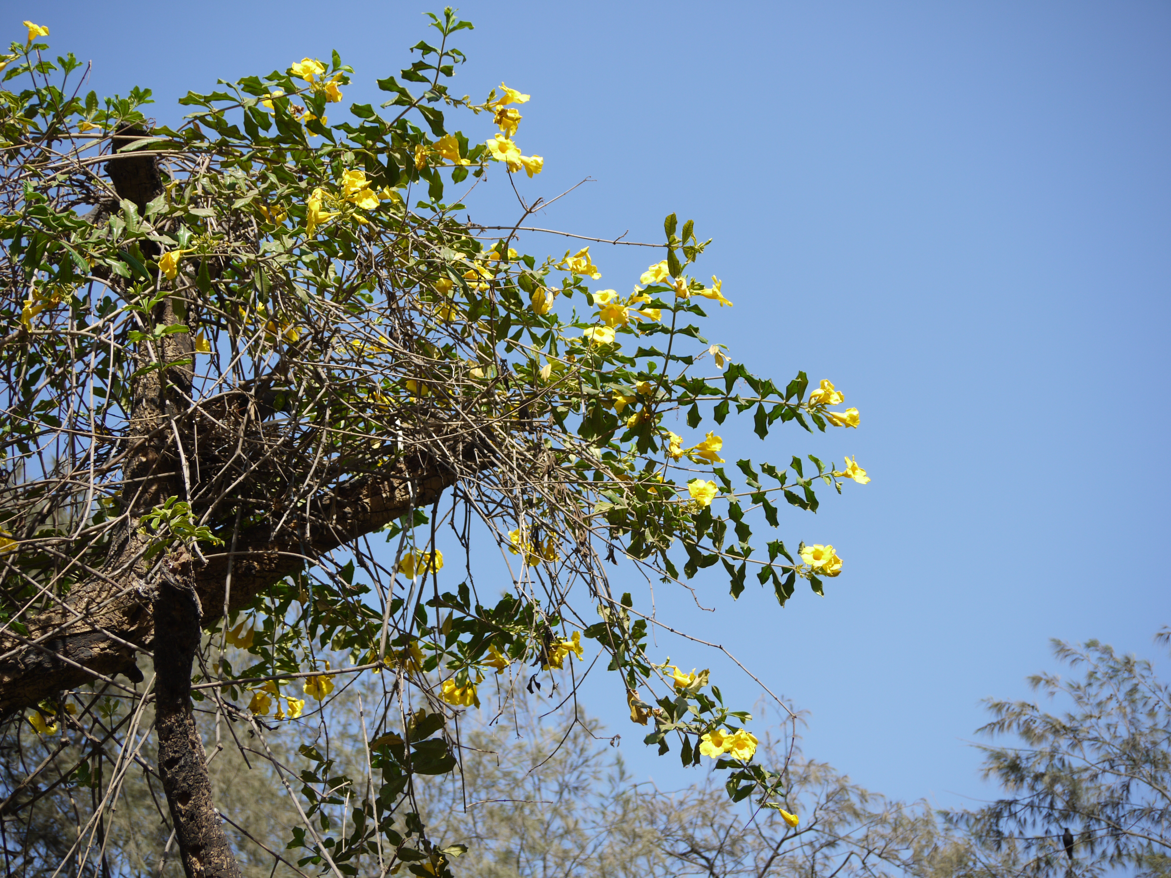 Apocynaceae (dogbane family) » Allamanda cathartica al-uh-MAN-duh -- named for Dr. Allamand of Leyden who sent seeds to Linnaeus kat-AR-tik-uh -- meaning, purgative commonly known as: golden trumpet, yellow allamanda Native to: tropical America References: Flowers of India • Top Tropicals • Dave's Garden • EcoPort